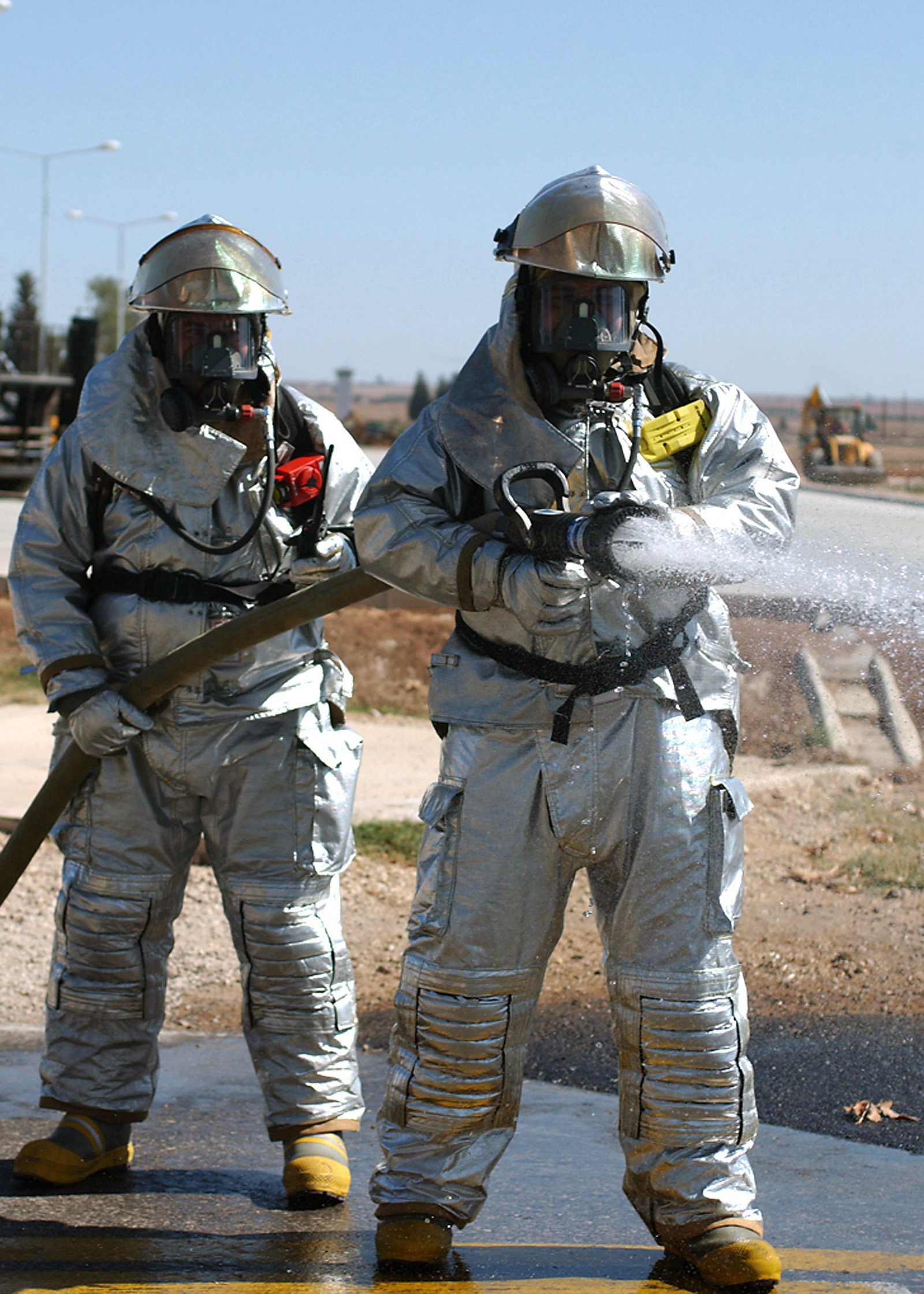 Turkish Firefighters with the 39th Air Base Wing, in Joint Firefighter Integrated Response Ensemble at Mission Oriented Protective Posture level 4, simulate putting out a fire on a car that simulated an explosion during a first response exercise held at Incirlik Air Base, Turkey